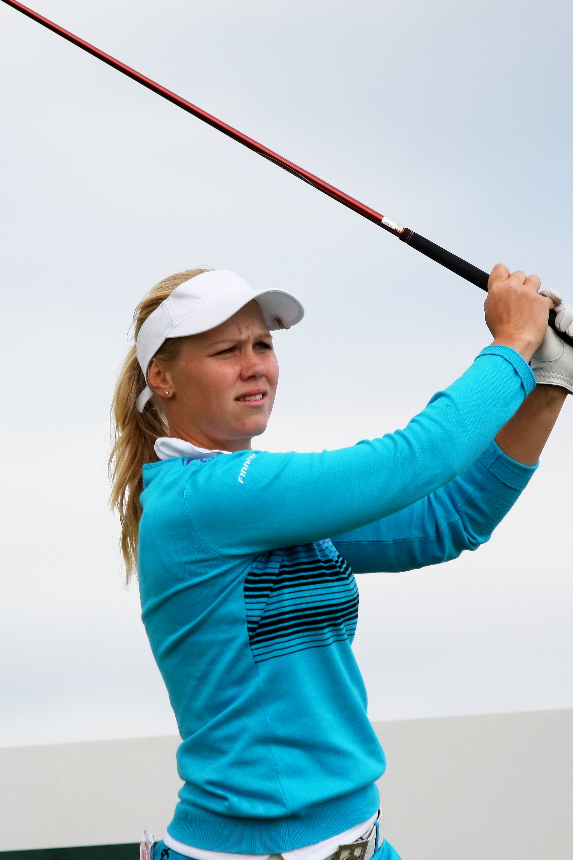 ST ANDREWS, SCOTLAND – JULY 31: Minea Blomqvist of Finland watches her tee shot on the 15th hole during final practice round of 2013 Ricoh Women's British Open held at St Andrews Old Course on July 31, 2013 in St Andrews, Scotland. (Photo by Wojciech Migda)